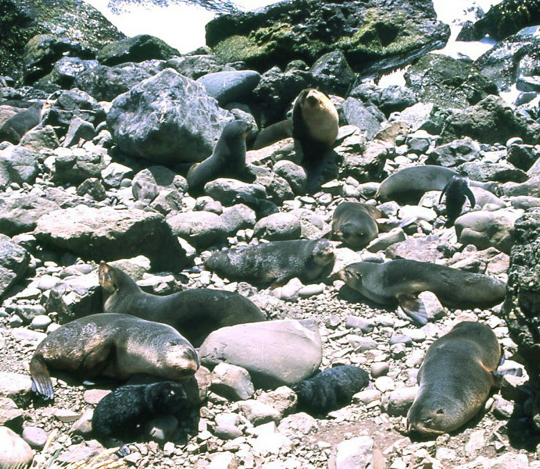 This picture was taken in Possession Island (Crozet Archipelago) at the site named "the elephant seal pool". This picture was taken in december 2002 by Nicolas Servera. On the top of the picture, just near the shore, you can see a male of the subantarctic fur seal (Arctocephalus tropicalis) keeping a close eye on his females. The edges of the picture match to the borders of his territory. His harem includes the eight females present on his territory and maybe other females not present at the moment of the picture. There is three pups on the picture. Two pups are marked with a numbered tape glued on the fur at the top of the head. This marking is made by scientifics in order to indentify the pups. On the bottom left corner, one pup is resting very close to his mother. The two other pups are too distant from a female. These pups are probably alone, waiting the return of their mothers from a sea trip. All the females resting on the beach without a pup on their side are most probably pregnant, waiting the parturition. On the upside left corner, there is one (maybe two) female who isn't from this harem but belongs to another. Furthermore, you can see a penguin trying to reach the sea. This penguin is probaly a rockhopper penguin (Eudyptes chrysocome) maybe a small macaroni penguin (Eudyptes chrysolophus).